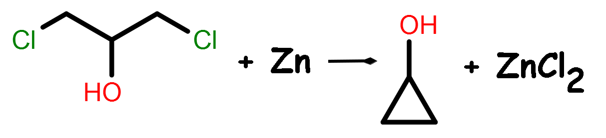 Ciclopropanol synthesis from 1,3-isopropanol